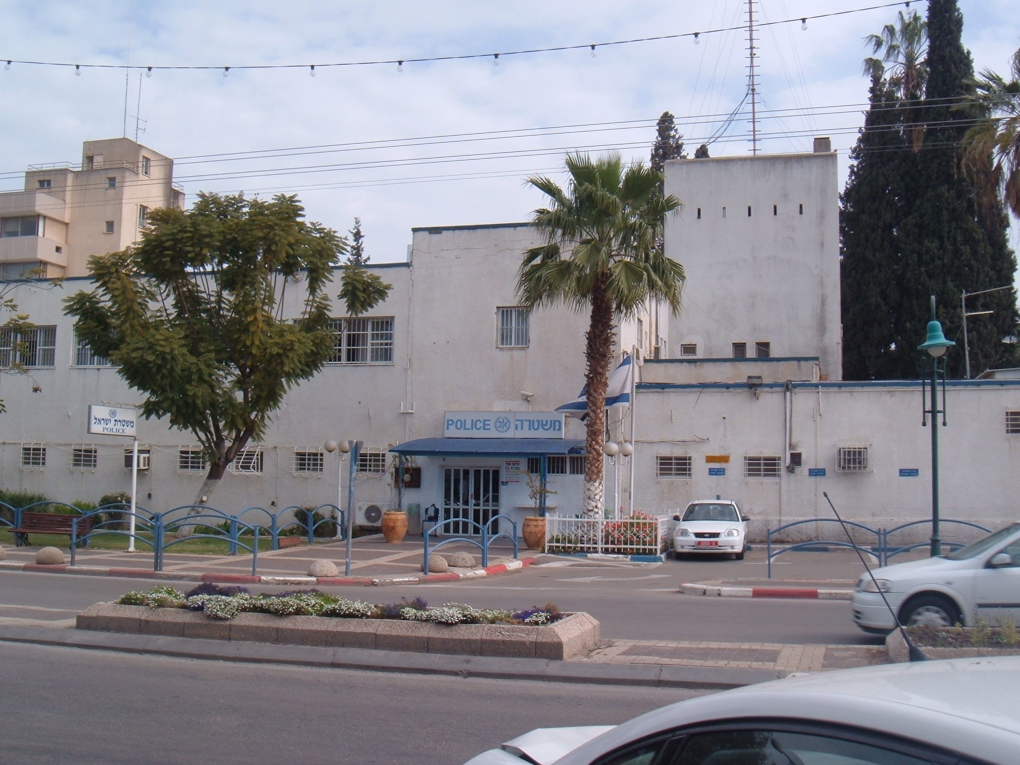 Police station in Afula. British Mandate era Tegart fort.